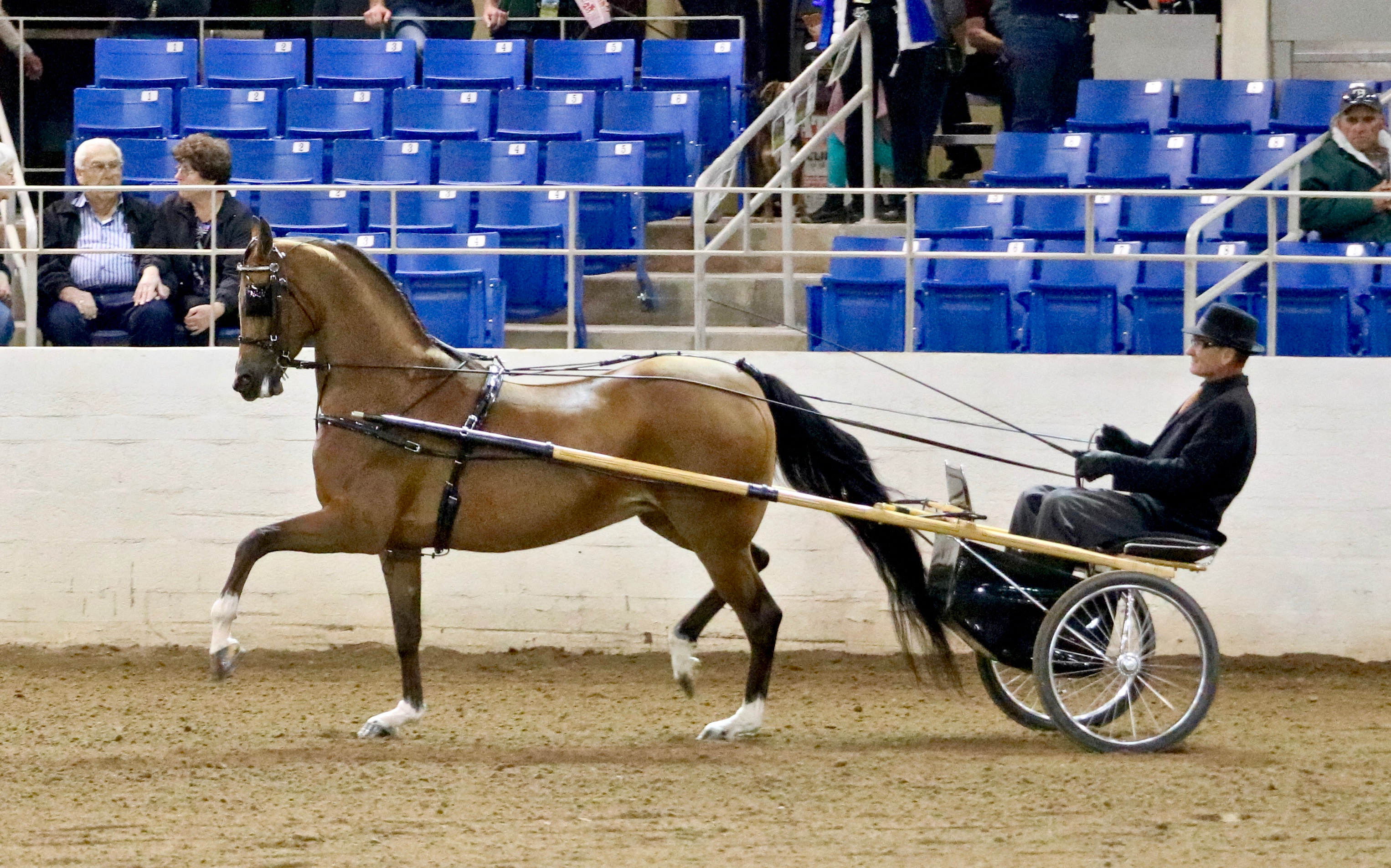 Pleasure driving At the 2017 Scottsdale Arabian Horse Show, Scottsdale, Arizona